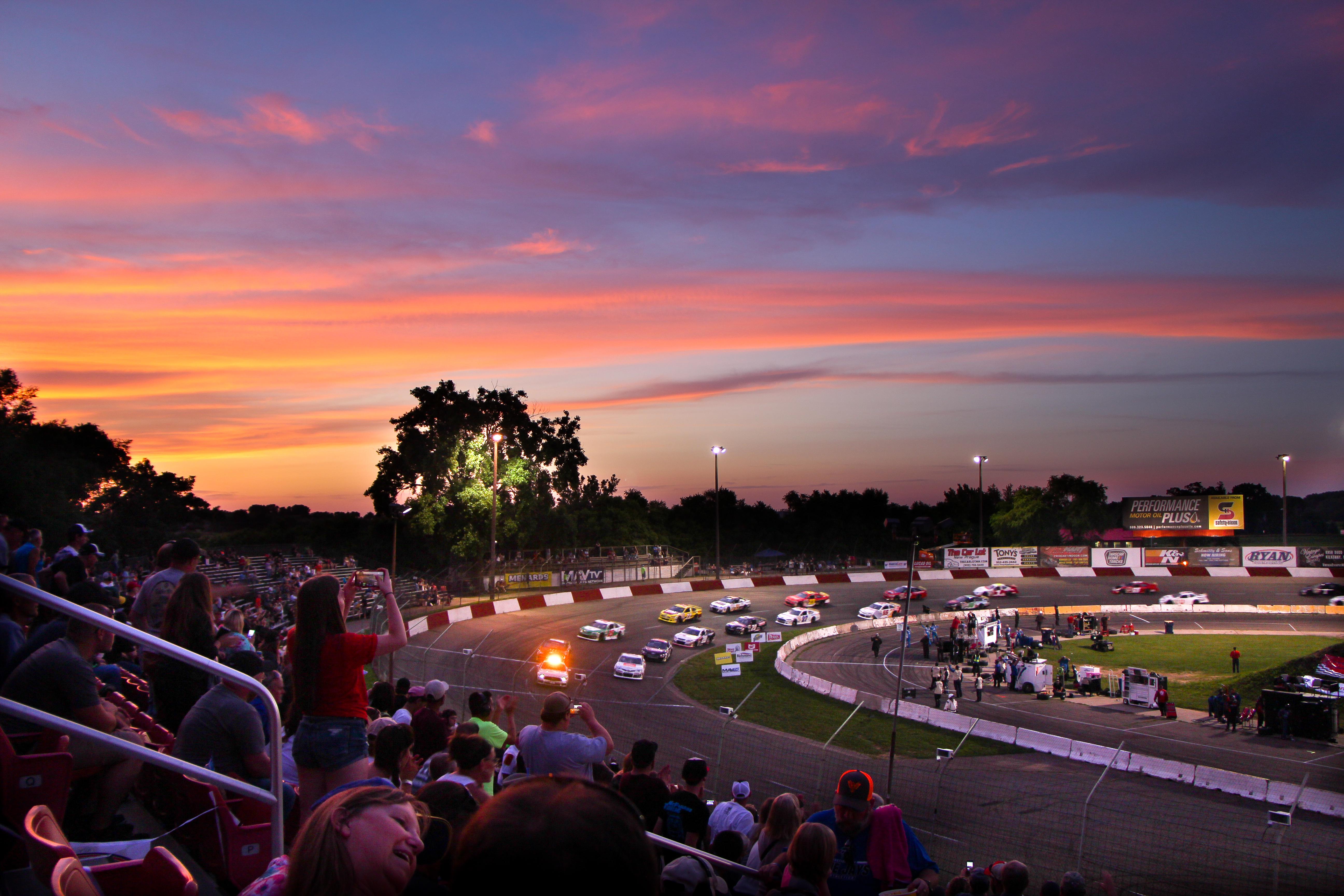 The field for the ARCA Menards Series race at Elko Speedway Menards 250.